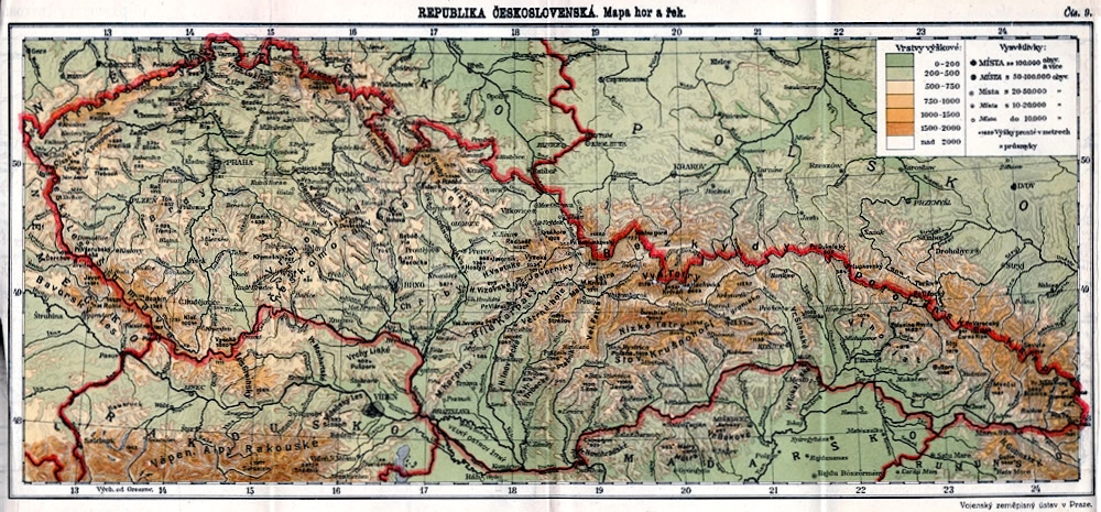 Map of the Czechoslovak Republic (1918-1945). Map of mountains and rivers.